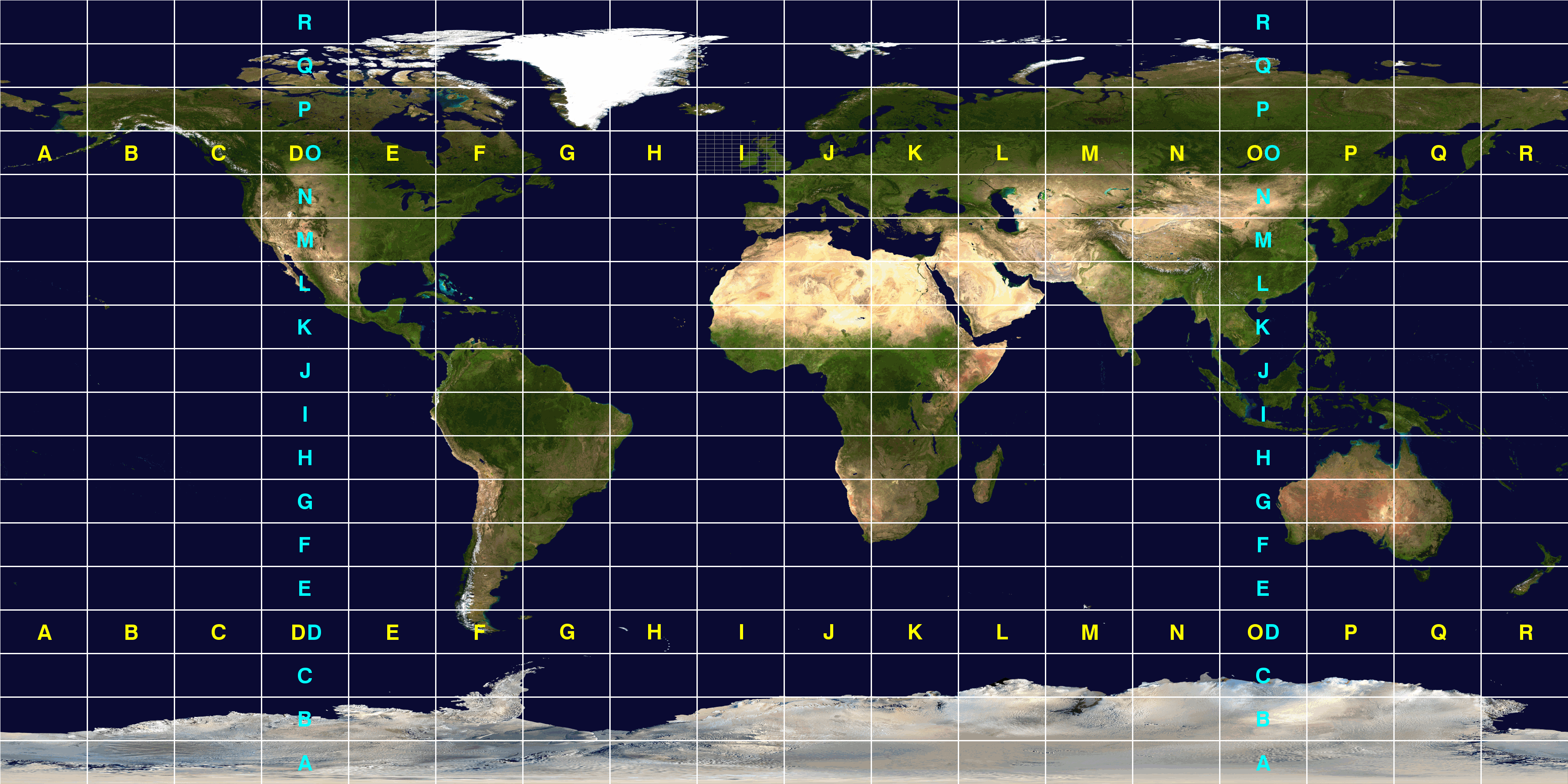 A map of the world subdivided into fields used in the Maidenhead Locator System used by Amateur radio operators. Each individual field is 10° in latitude and 20° in longitude. This image was constructed from a public domain Visible Earth product of the Earth Observatory office of the United States government space agency NASA. It is based on a cylindrical equi-distant projection, and was manually marked up by User:Denelson83.